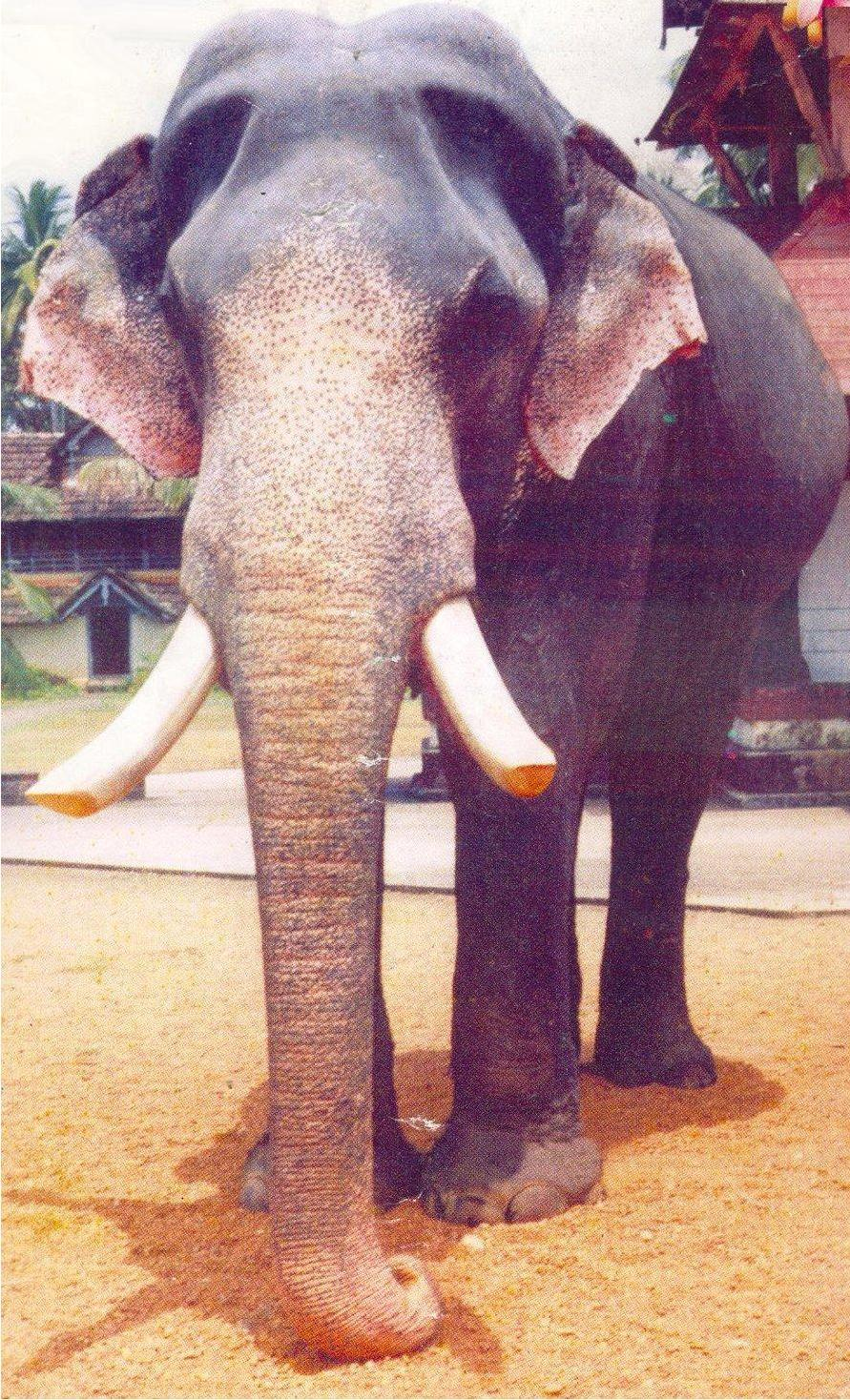 Thiruvalla Jayachandran